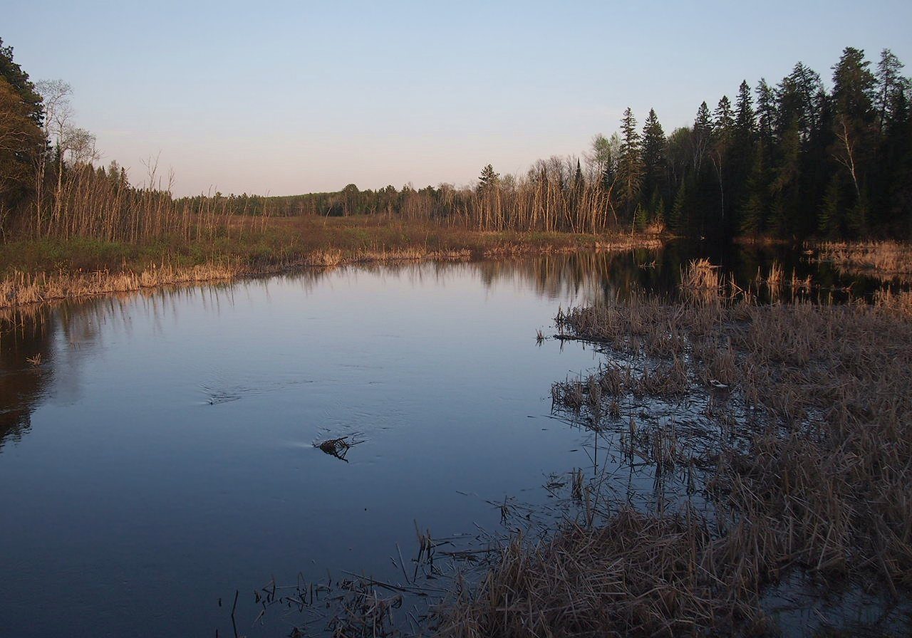 The Sturgeon River from County Highway 5, French Township, St Louis County, Minnesota, USA. Viewed from the northwest at sundown.